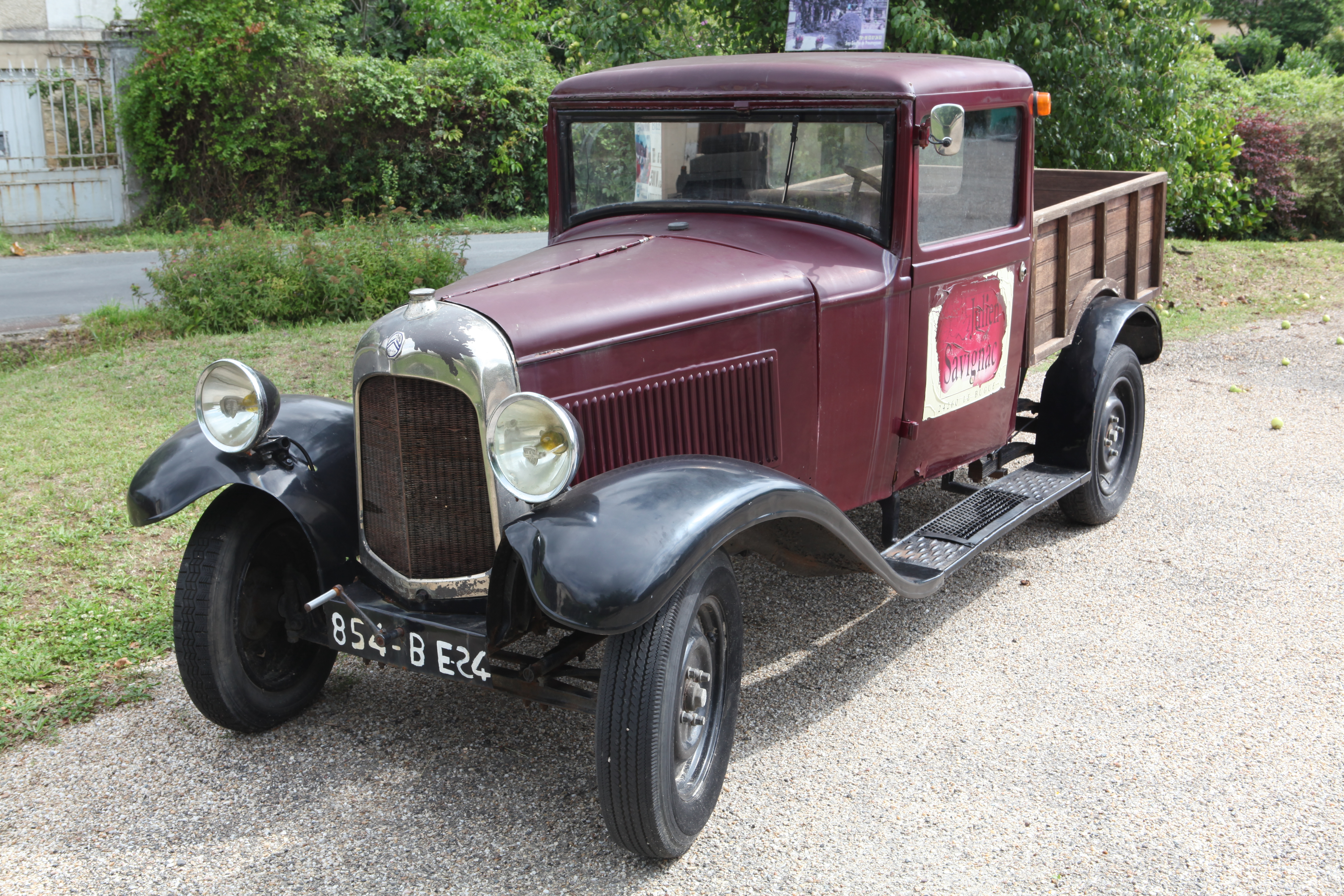 old citroen composite truck , Citroën truck build with different elements: possibly B2 radiator, C4 cabine and fenders, B14 lights, Peugeot 201 wheels